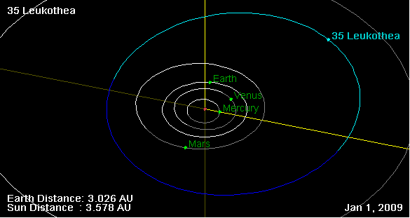 35 Leukothea orbit, and his position on 1 Dec 2009 (NASA Orbit Viewer applet)